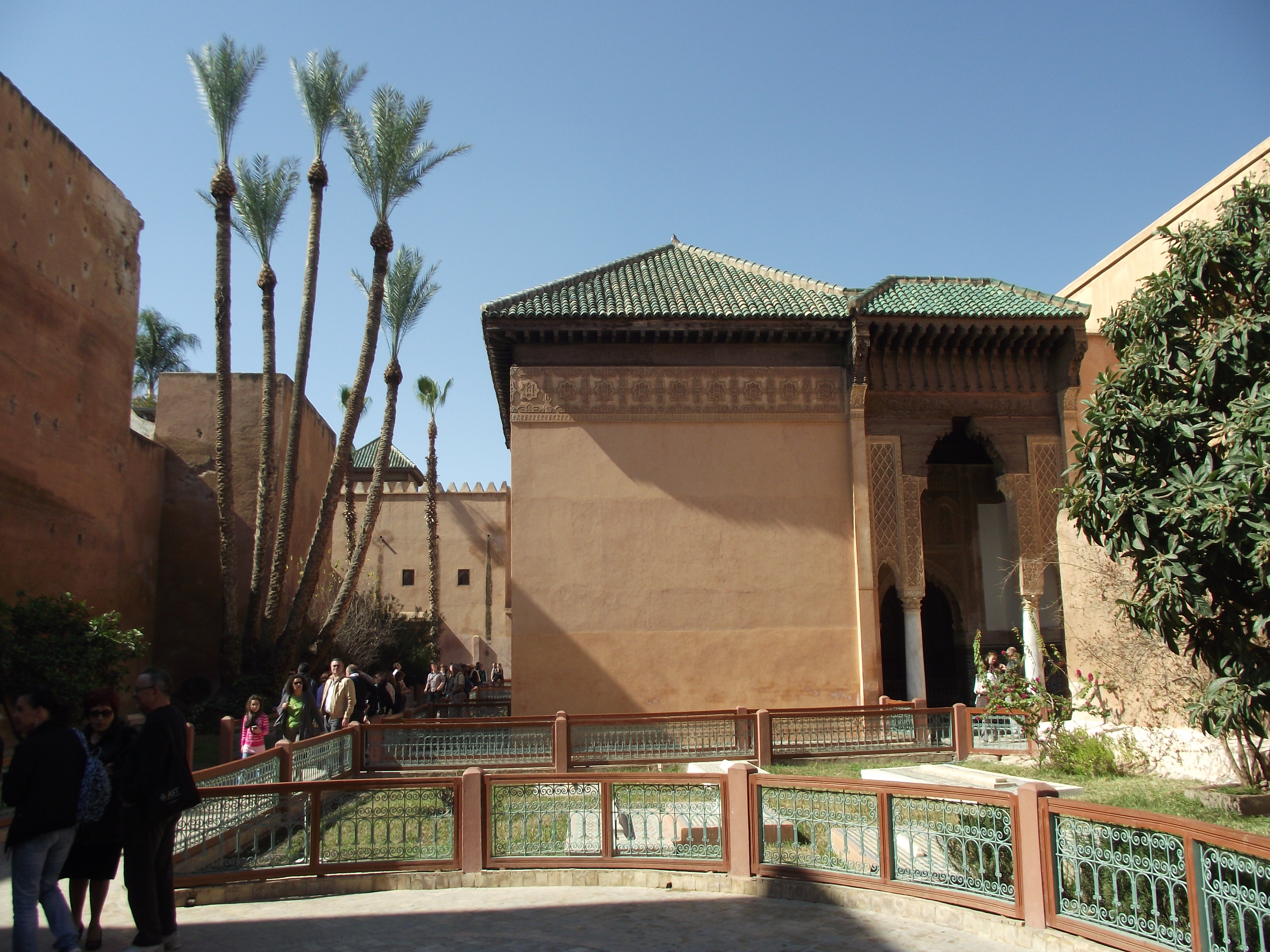 Marrakech, Saadian Tombs